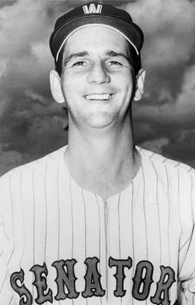 Professional baseball player Jim Mahoney